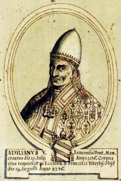 Sketch of Pope Adrian V by 17th century artist